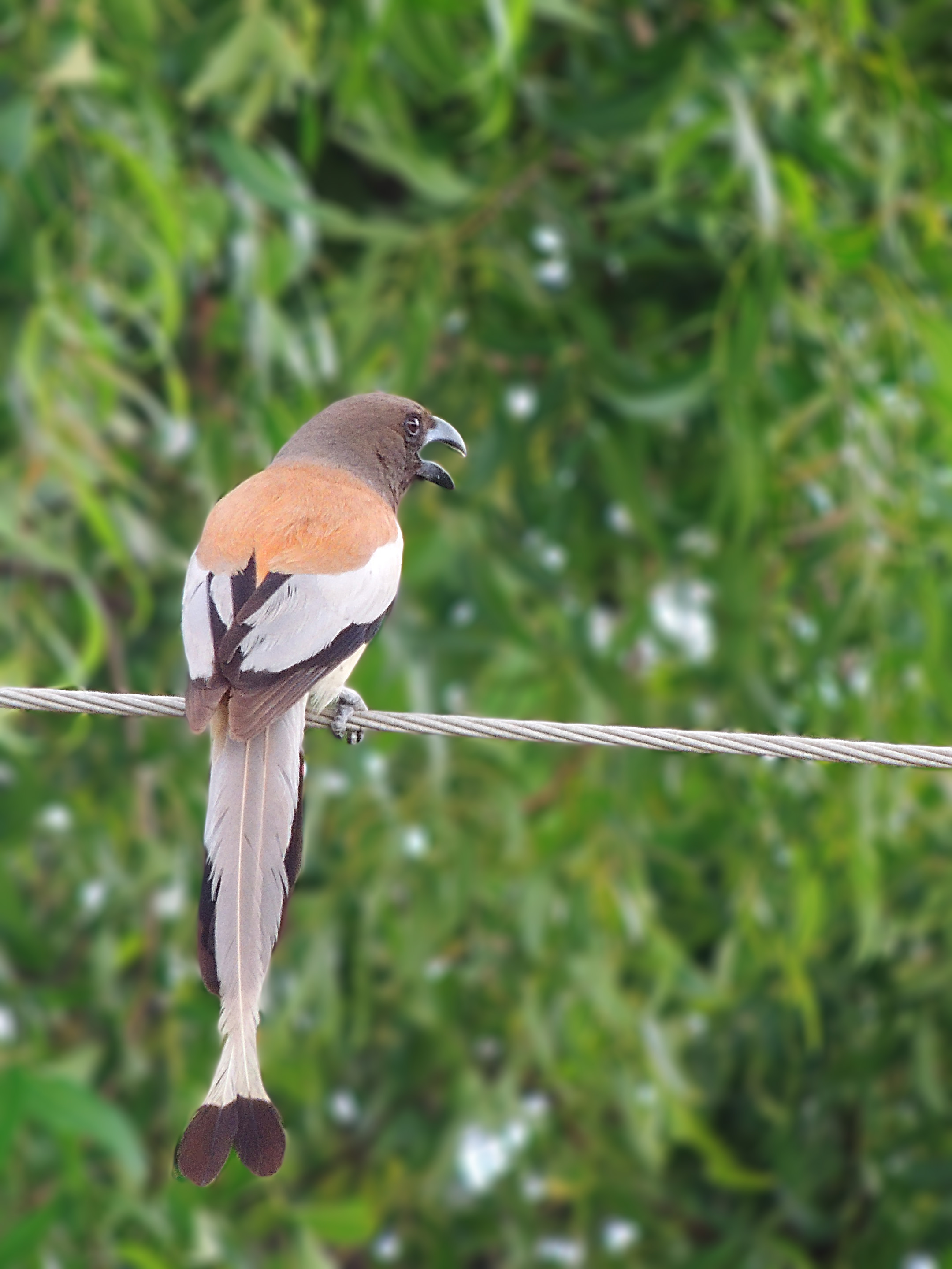 Rufous Treepie captured at Budalur, Thanjavur (Dt).